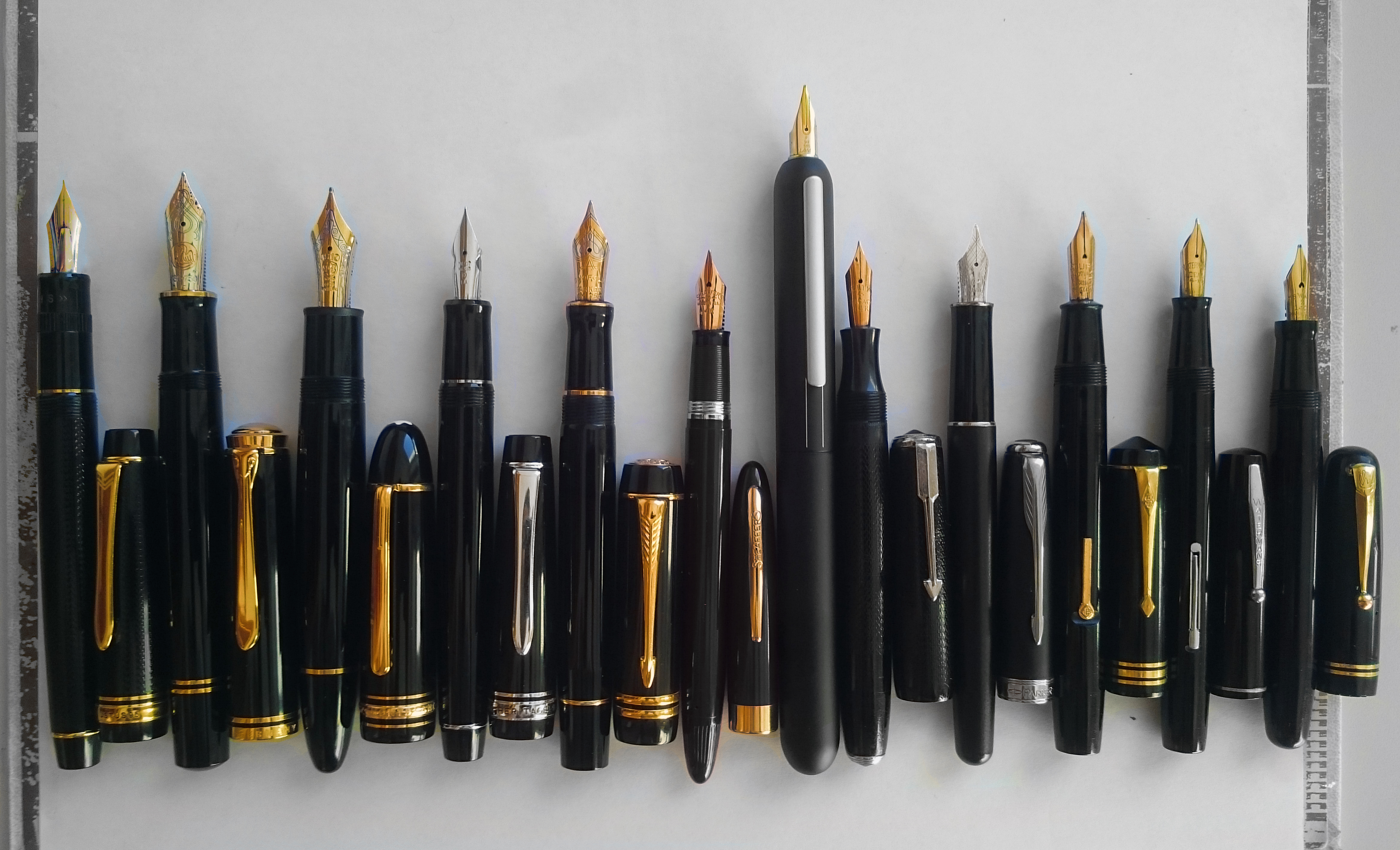 From left to right: 1. Pilot Justus 95 (14k gold F nib), 2. Pelikan Souverän M1000 (18k gold F nib), 3. Montblanc Meisterstück 149 (18k gold M nib), 4. Pilot Heritage 912 (14k gold FA nib), 5. Parker Duofold Centennial (18k gold F nib), 6. Sheaffer Snorkel Admiral (14k gold F nib), 7. Lamy Dialog 3 (14k gold F nib), 8. Welty (14k gold F nib), 9. Parker Sonnet (18k gold F nib), 10. Conway Stewart 55 (14k gold M Duro nib), 11. Waterman Thorobred (14k gold F nib), 12. Mabie Todd Swan 3220 (14k gold M nib)